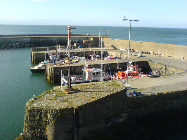 Amlwch Harbour